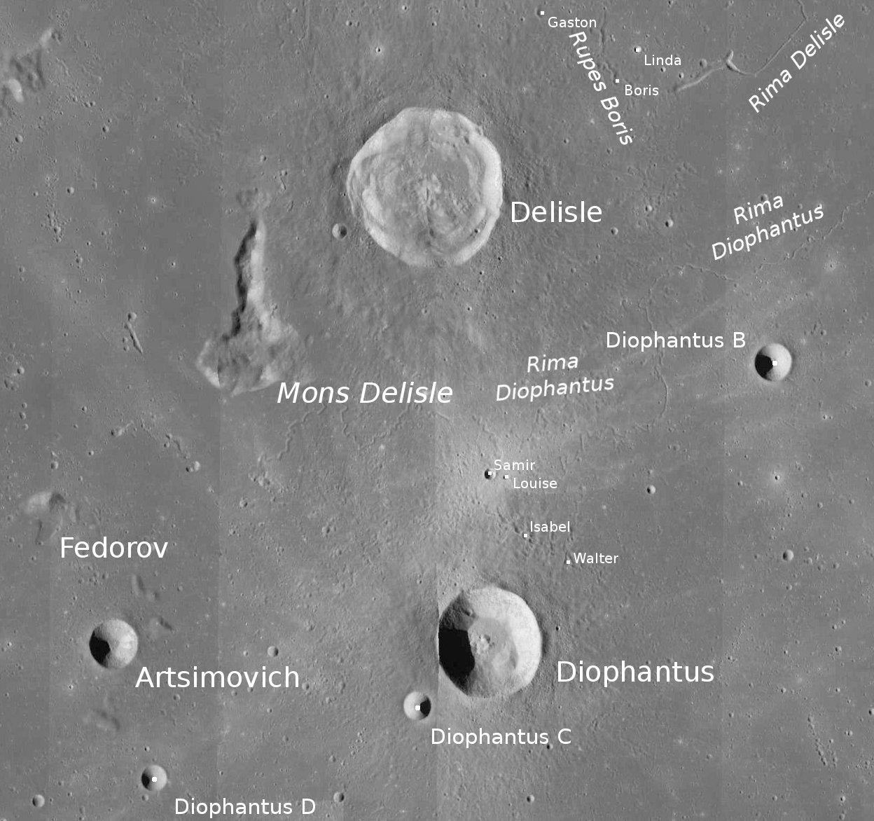 Craters Diophantus and Delisle (detail of LRO - WAC global moon mosaic)